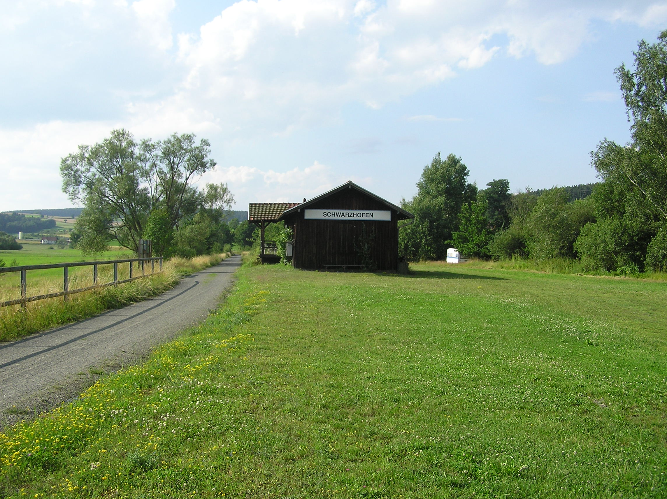 Radlerbahnhof Schwarzhofen